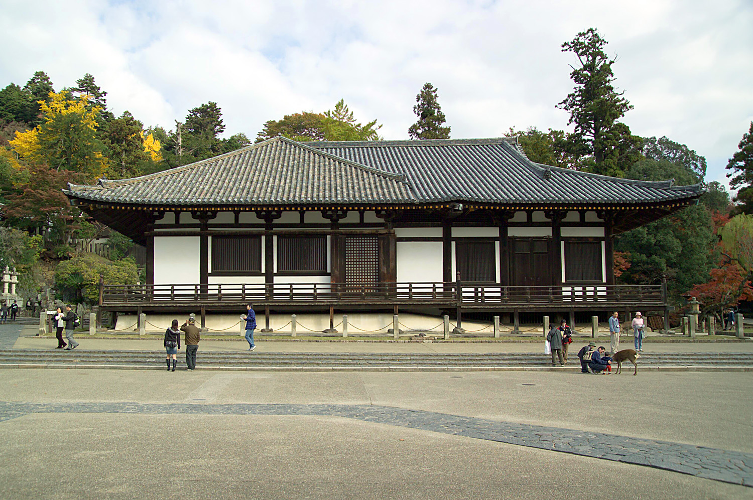 Hokkedô at Todaiji Nara Japan I took this photo and contribute my rights in the file to the public domain; people and organizations retain rights over images in it.